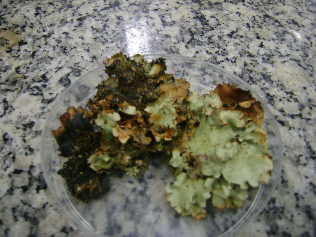 leafy_lichen